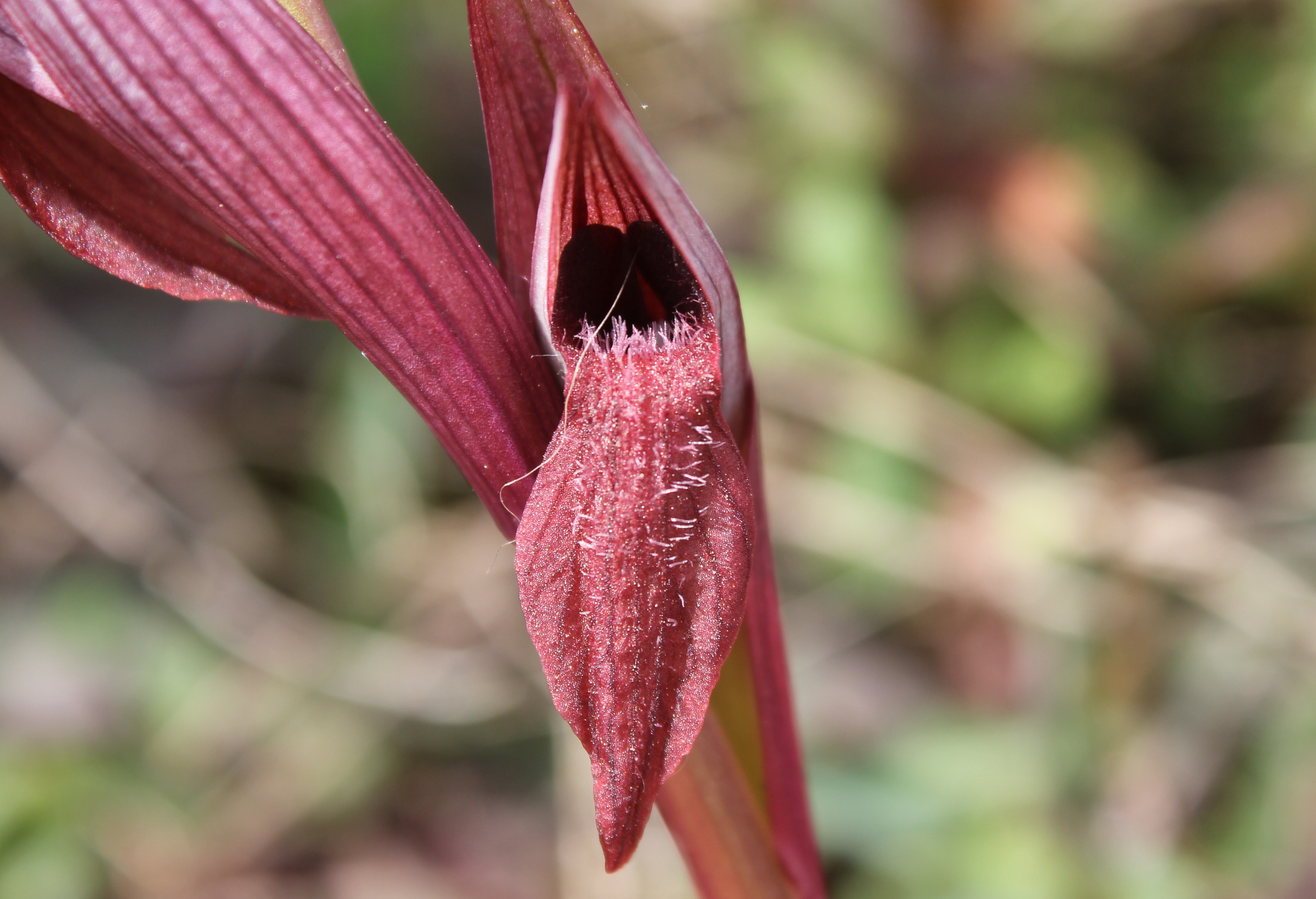 Serapias vomeracea epichile